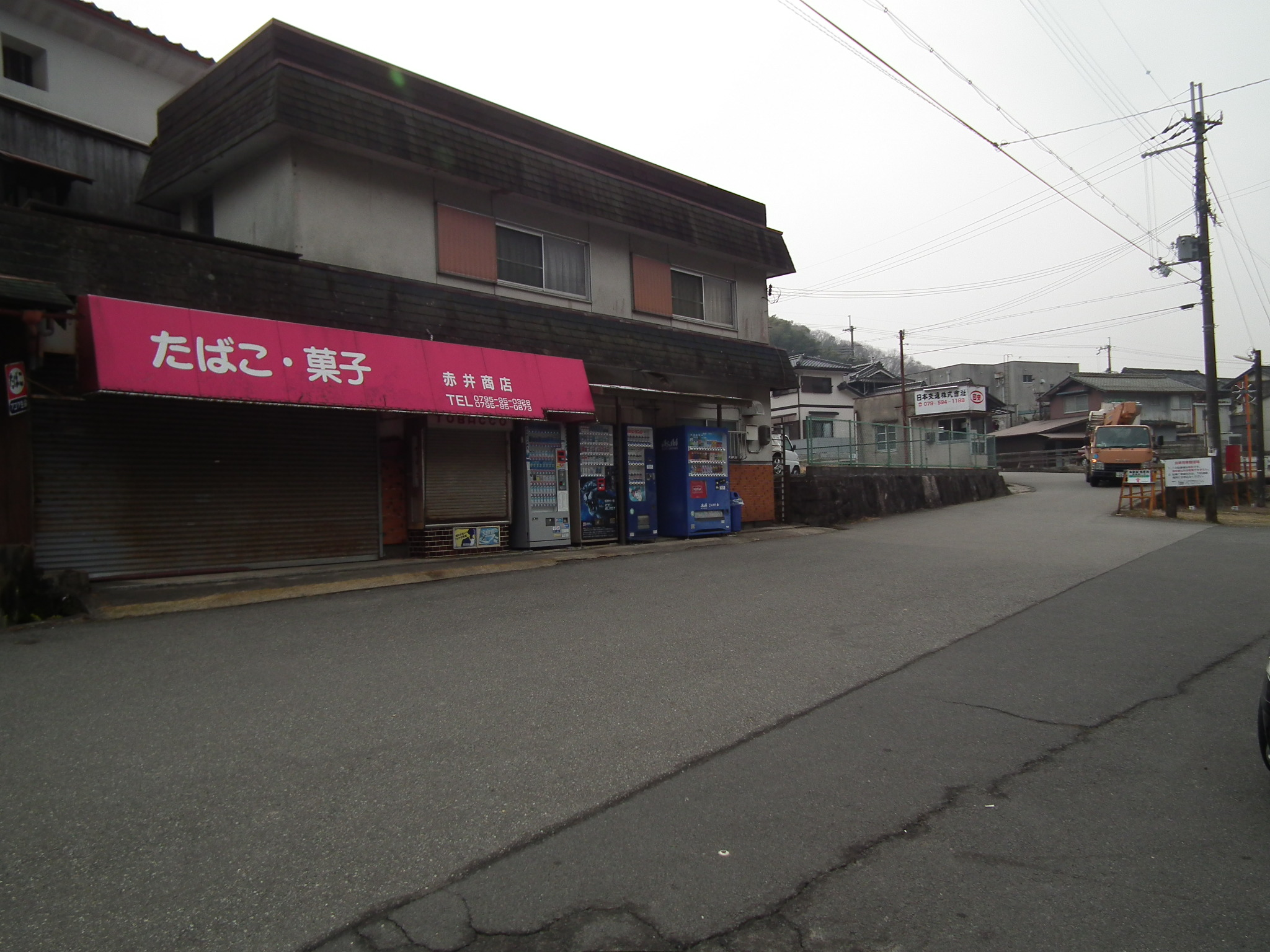 In front of Furuichi Station in Sasayama, Hyogo, Japan